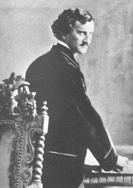 American playwright, actor, theatre manager and director Steele MacKaye.